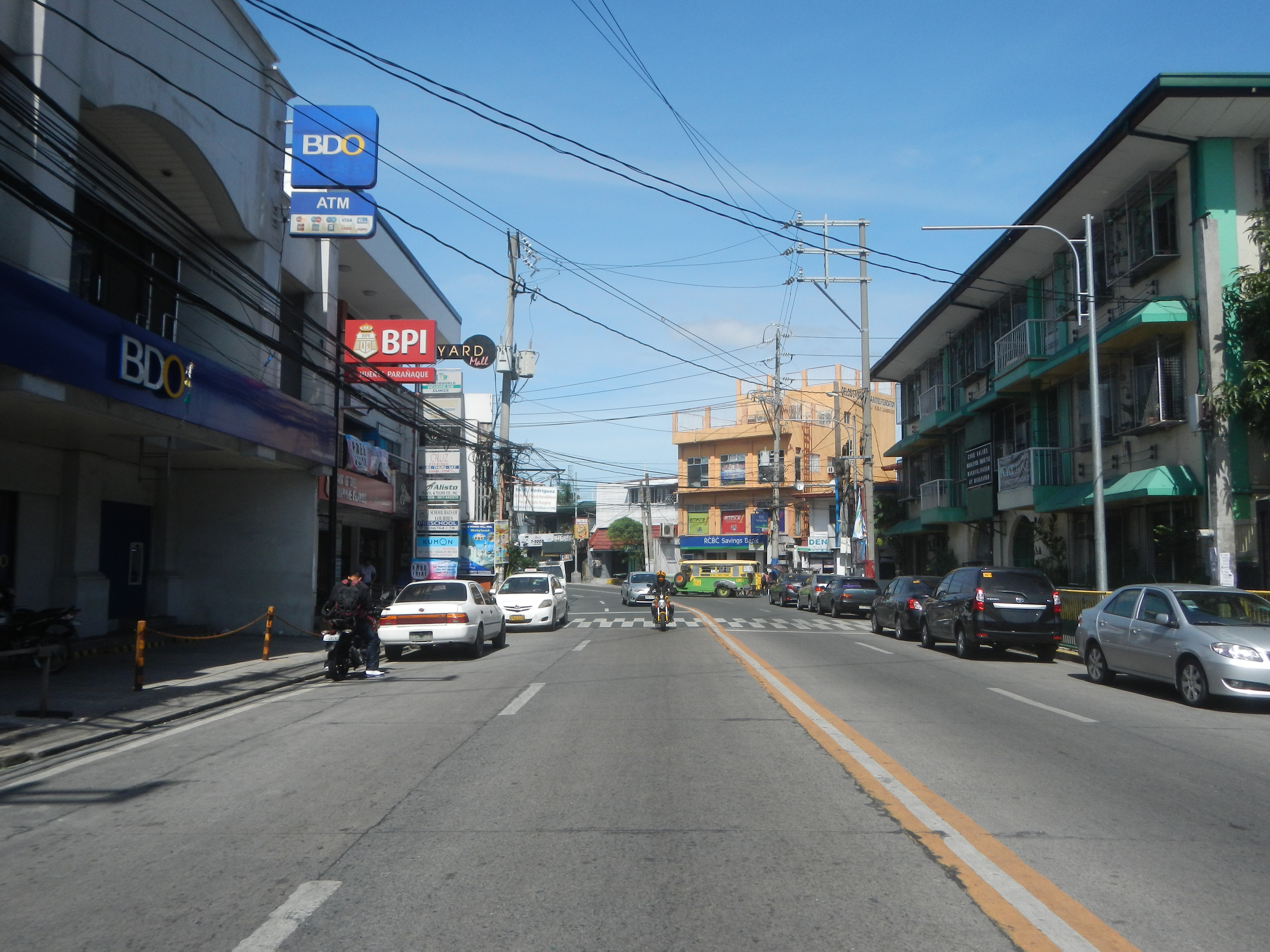 Elpidio Quirino Avenue (Tambo, Don Galo, La Huerta and San Dionisio, Parañaque City section) La Huerta National High School (Elpidio Quirino Avenue, Parañaque City) La Huerta, Parañaque, Parañaque; St. Andrew's School Interior of the Diocesan Shrine of Nuestra Señora de Buen Suceso and The Cathedral-Parish of Saint Andrew (Quirino Avenue, La Huerta, Parañaque City) Pedro Dandan Y Masangkay Pamilihang Bayan ng Bagong Parañaque Ospital ng Parañaque City Building 3 Construction Construction of R. C. Box Culverts (Elpidio Quirino Avenue, San Dionisio, Parañaque City) City of Las Piñas-Parañaque City Welcome arch-sign in Barangays San Dionisio and Manuyo Uno, Elpidio Quirino Avenue Manuyo Uno, Las Piñas City Diego Cera Legislative districts of Parañaque 1st District, Districts and barangays, Barangay La Huerta 14°29'50"N 120°59'43"E beside Don Galo 14°30'26"N 120°59'4"E Tambo 14°30'59"N 120°59'20"E San Dionisio 14°29'2"N 120°59'33"E Baclaran, Parañaque City along Elpidio Quirino Avenue Don Galo-La Huerta Bridge, Parañaque City Sta. 9+766-Sta.9+841 Load limit 20 metric tons upon Parañaque River from and to Roxas Boulevard, Radial Road 2 from Baclaran LRT station (Note: Judge Florentino Floro, the owner, to repeat, Donor Florentino Floro of all these photos hereby donate gratuitously, freely and unconditionally Judge Floro all these photos to and for Wikimedia Commons, exclusively, for public use of the public domain, and again without any condition whatsoever).